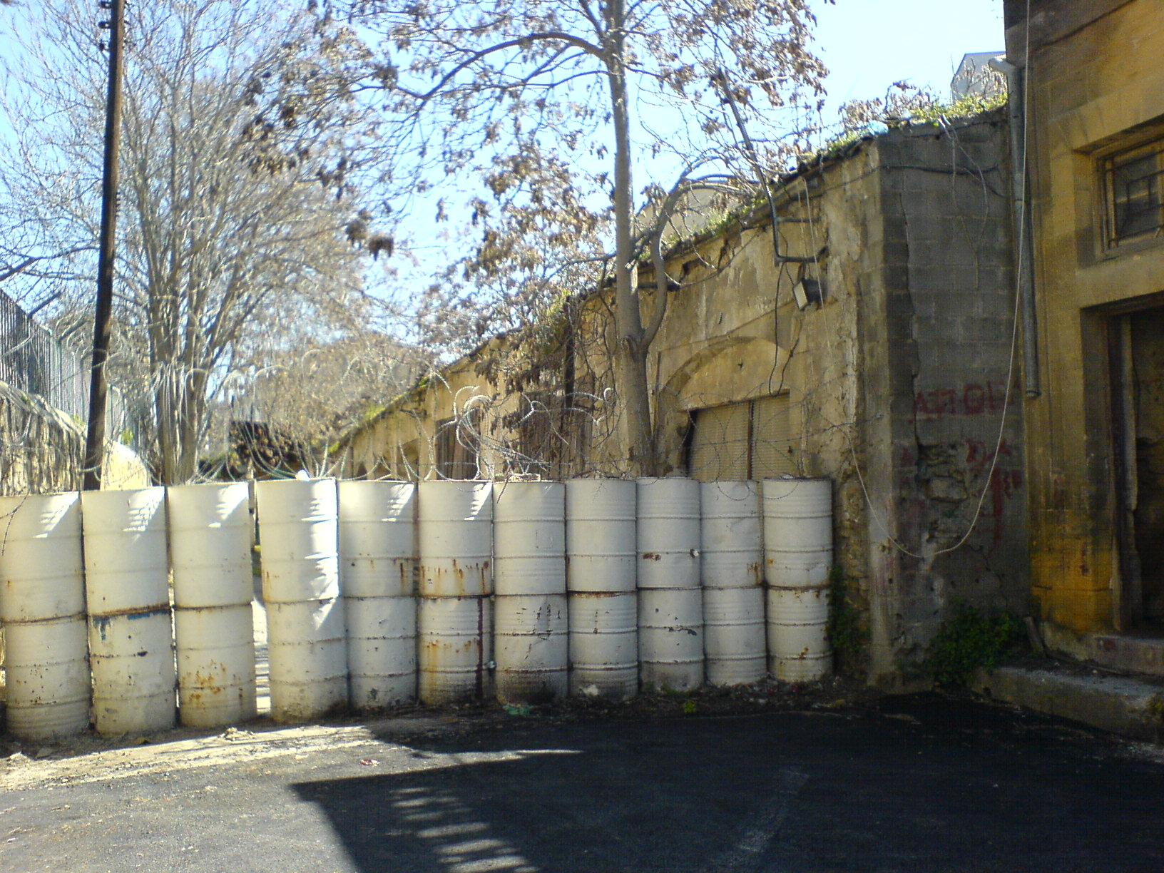 Part of the fence dividing Nicosia